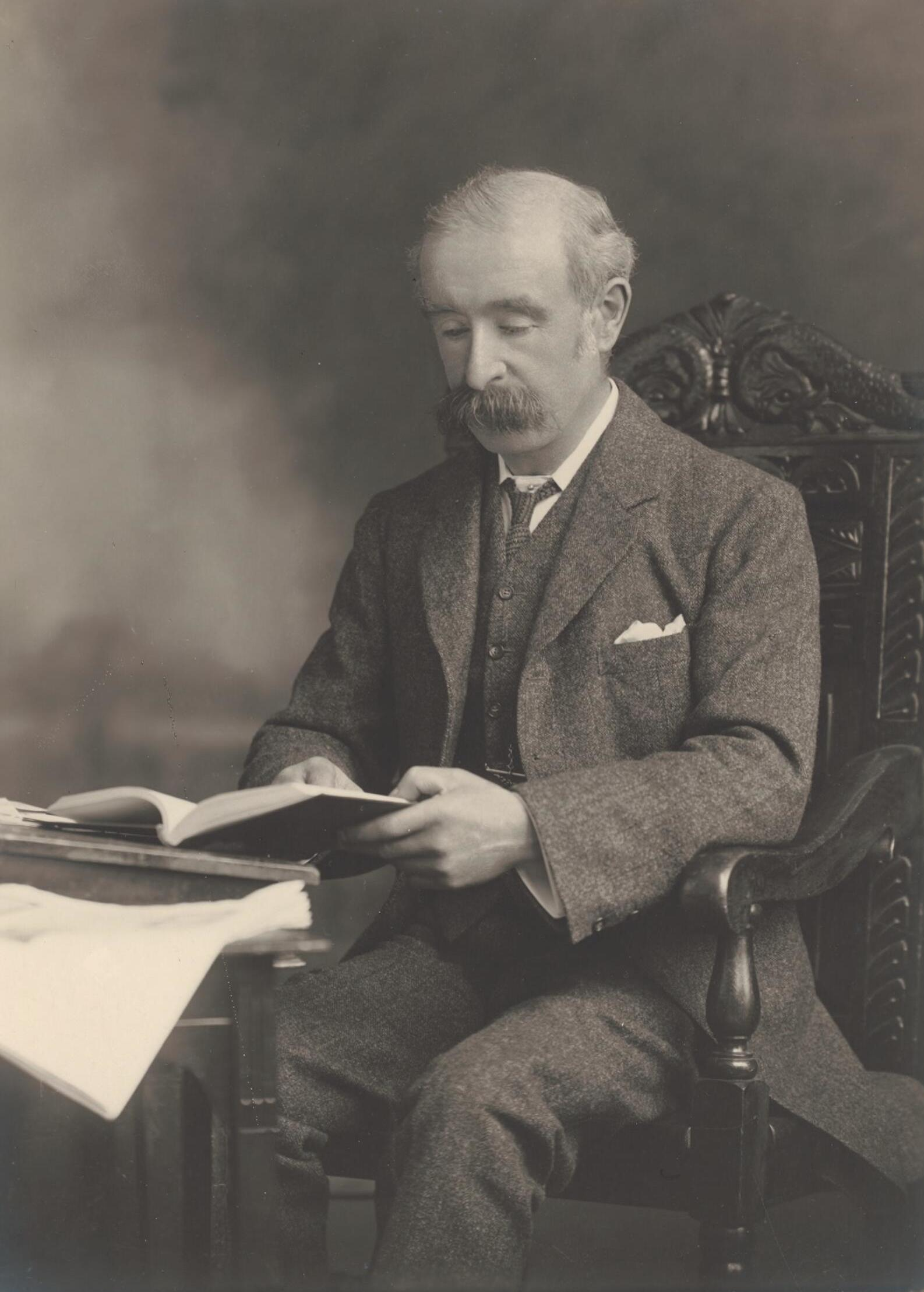 Australian politician Paddy Glynn